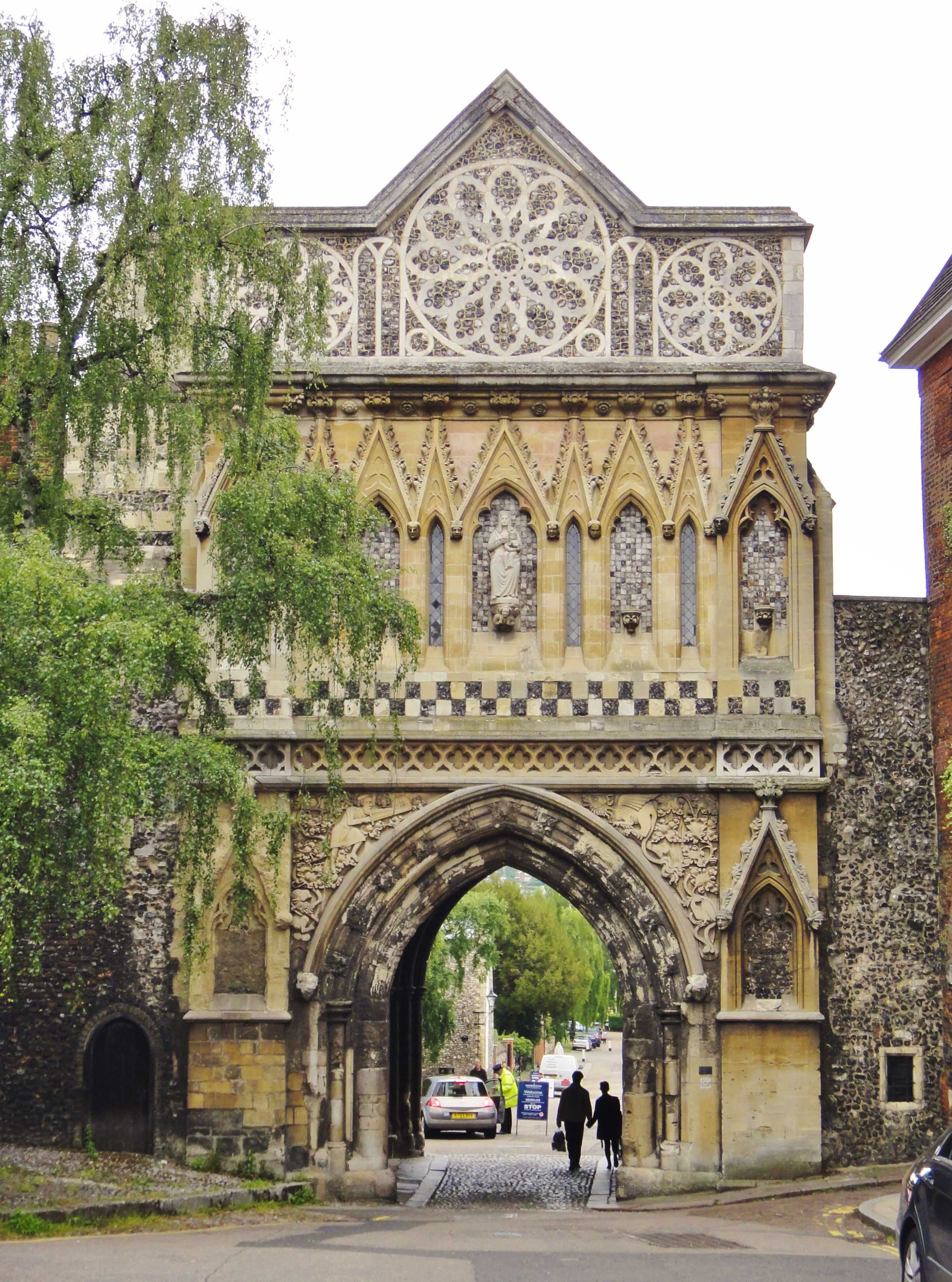 The Ethelbert Gate entrance to the close of Norwich Cathedral from Tombland, Norwich.